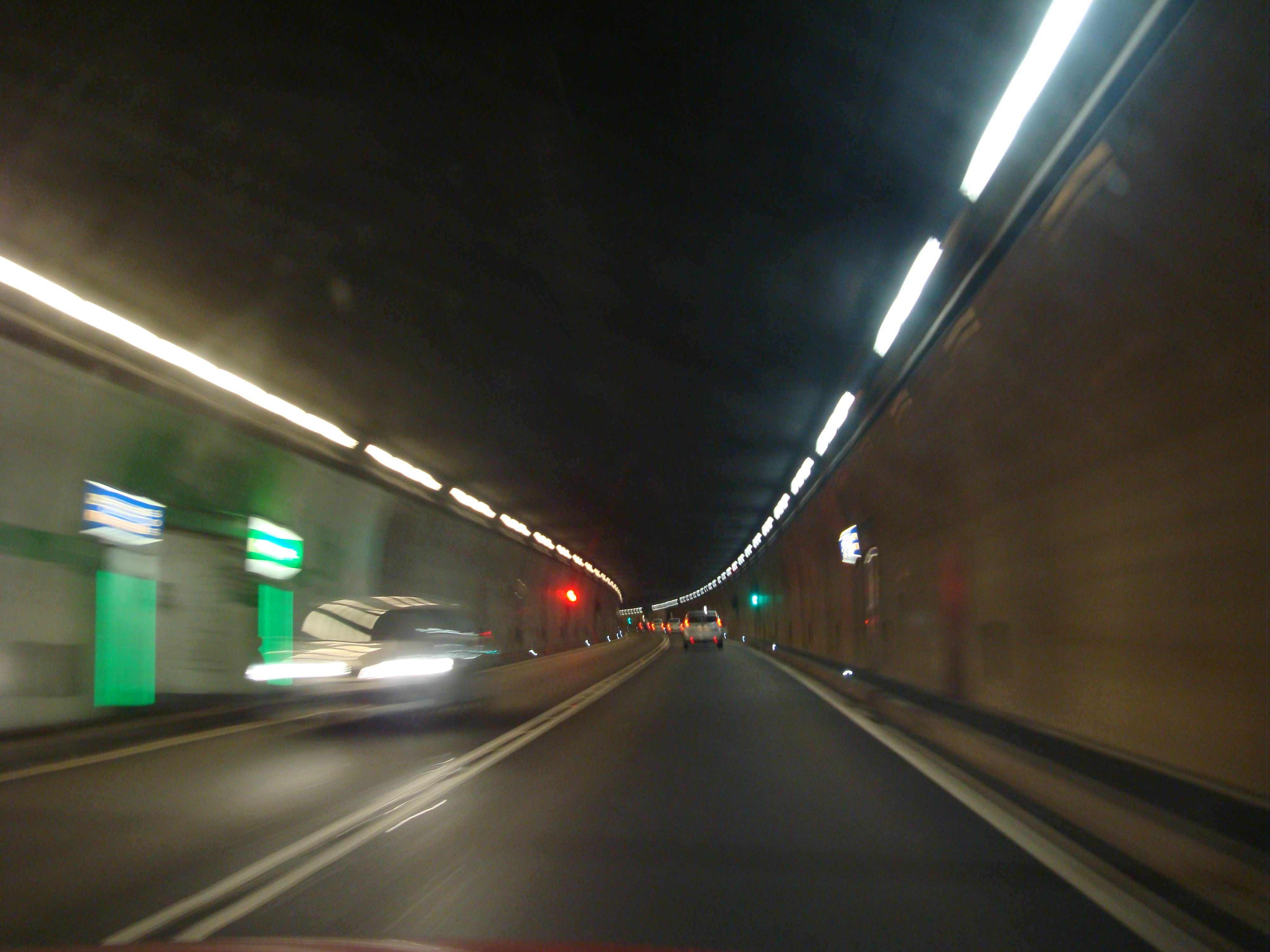 An image of the interior of the Gotthard Road Tunnel in Switzerland